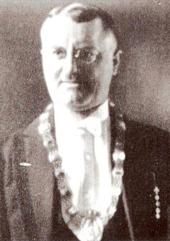 Max Pollwein (1885-1944), lord mayor of Bad Kissingen (1919-1939)